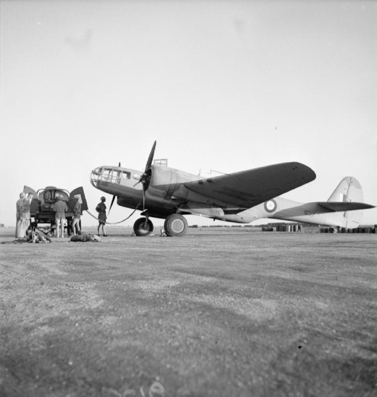 Royal Air Force Operations in the Middle East and North Africa, 1939-1943. Martin Maryland Mark II, 1655, of the SAAF, is refuelled at Ma'aten Bagush, Egypt.